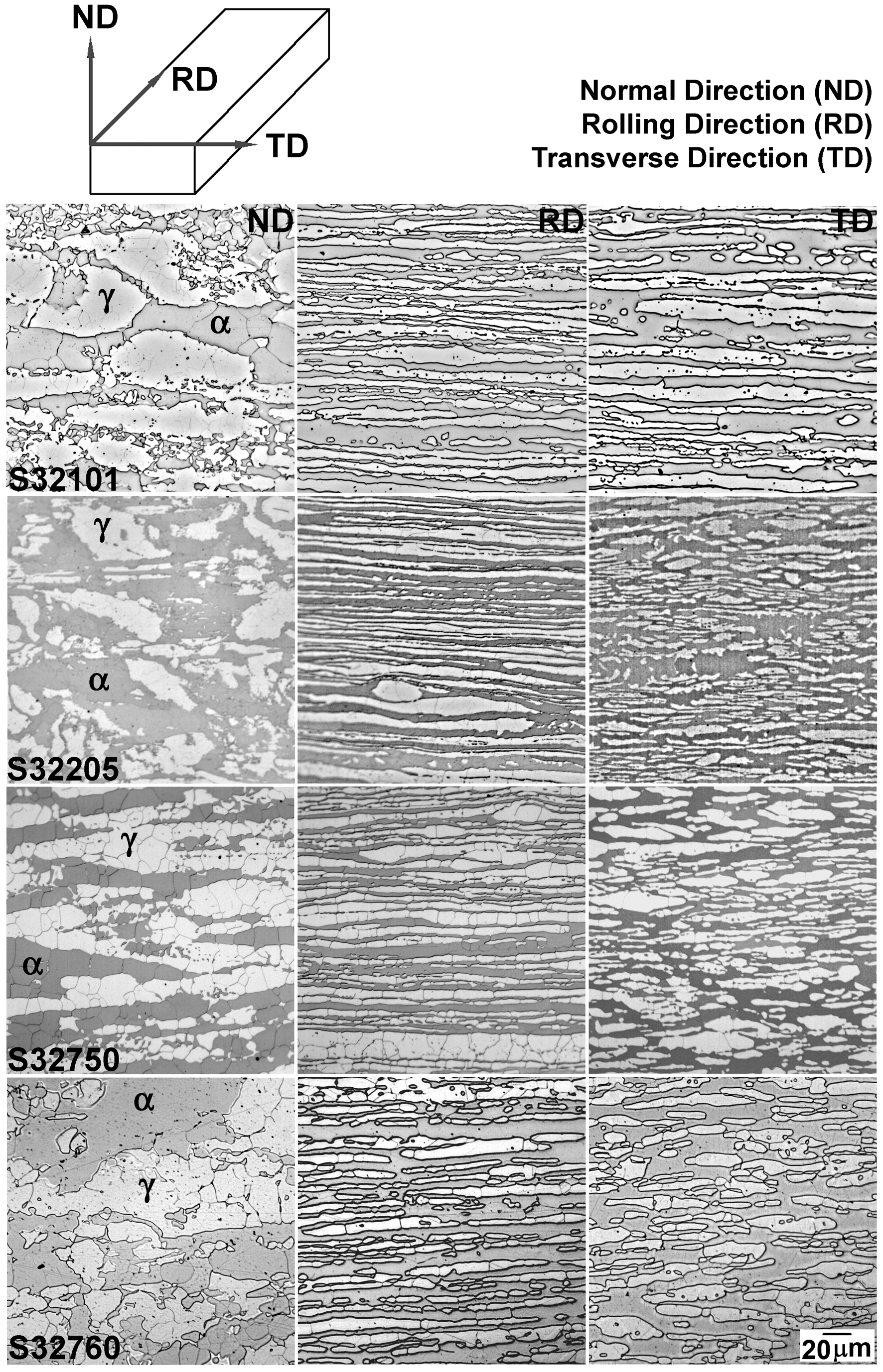 Microstructures of four kinds of duplex stainless steel in normal, transverse, and rolling directions.